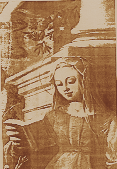 Donna Maria d'Avalos - first wife of Carlo Gesualdo, composer and prince of Venosa.